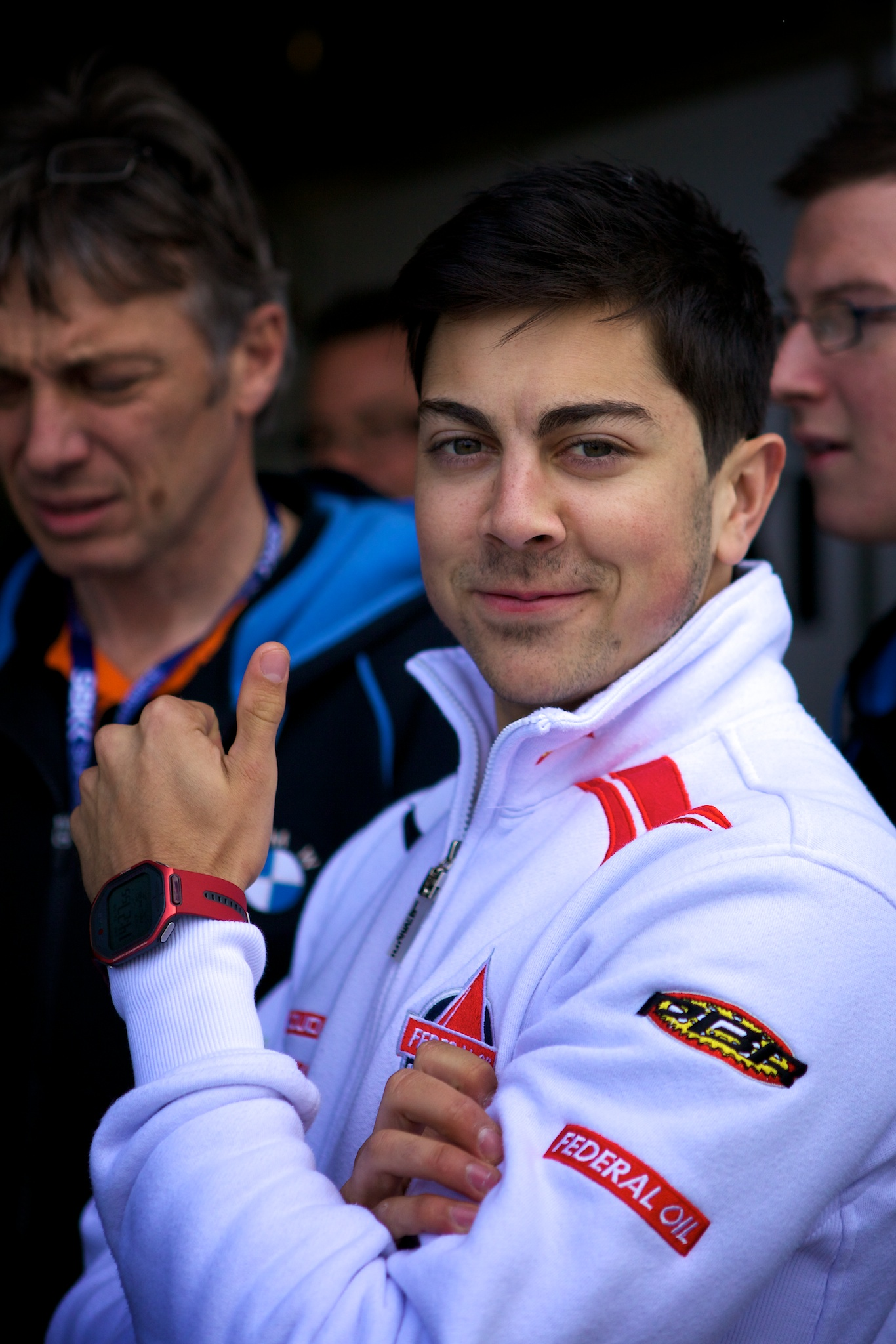 Gino Rea visits Donington, 2012.